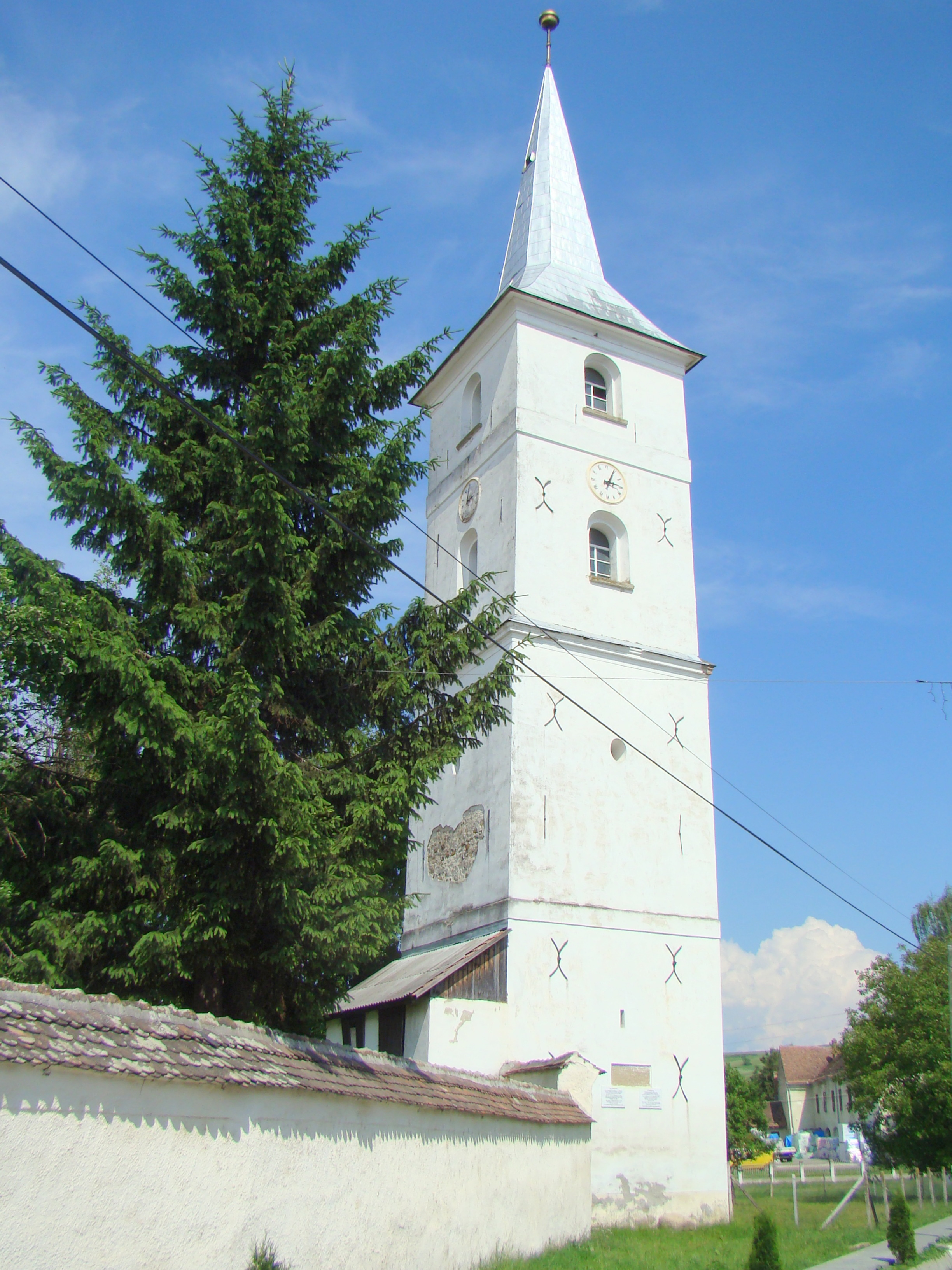 Lutheran church in Batoș, Mureş county, Romania